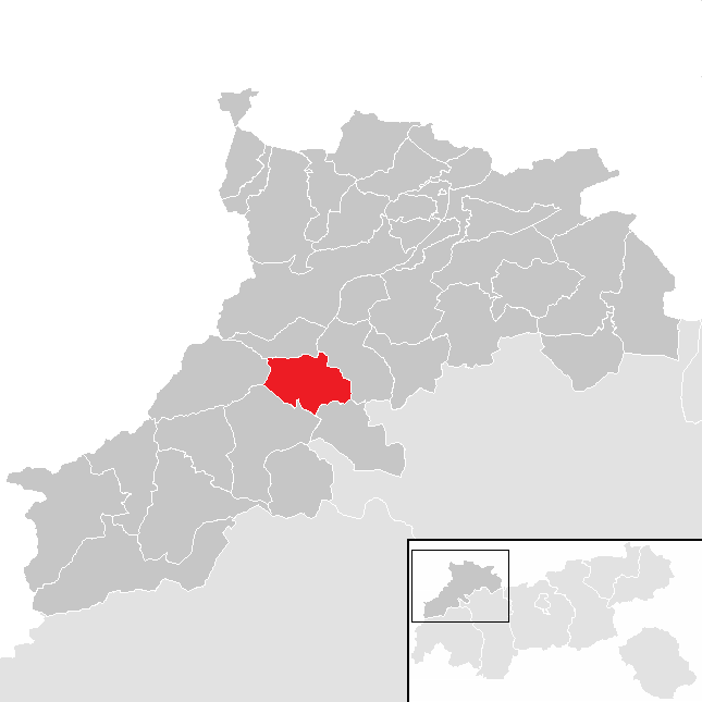 District Reutte